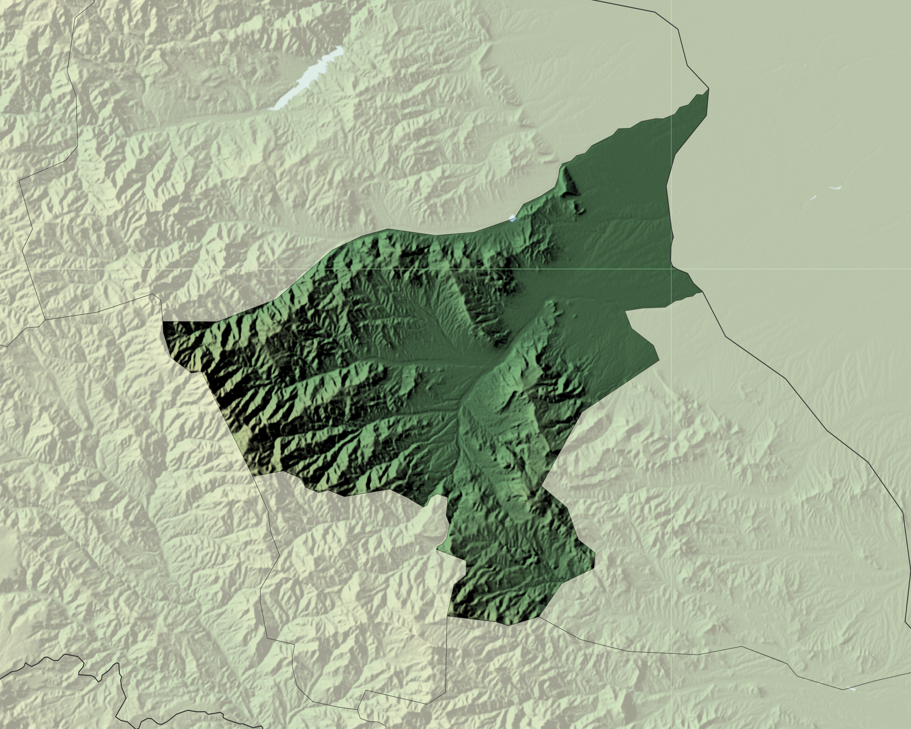 Hillshaded map of Askeran region of Artsakh Republic